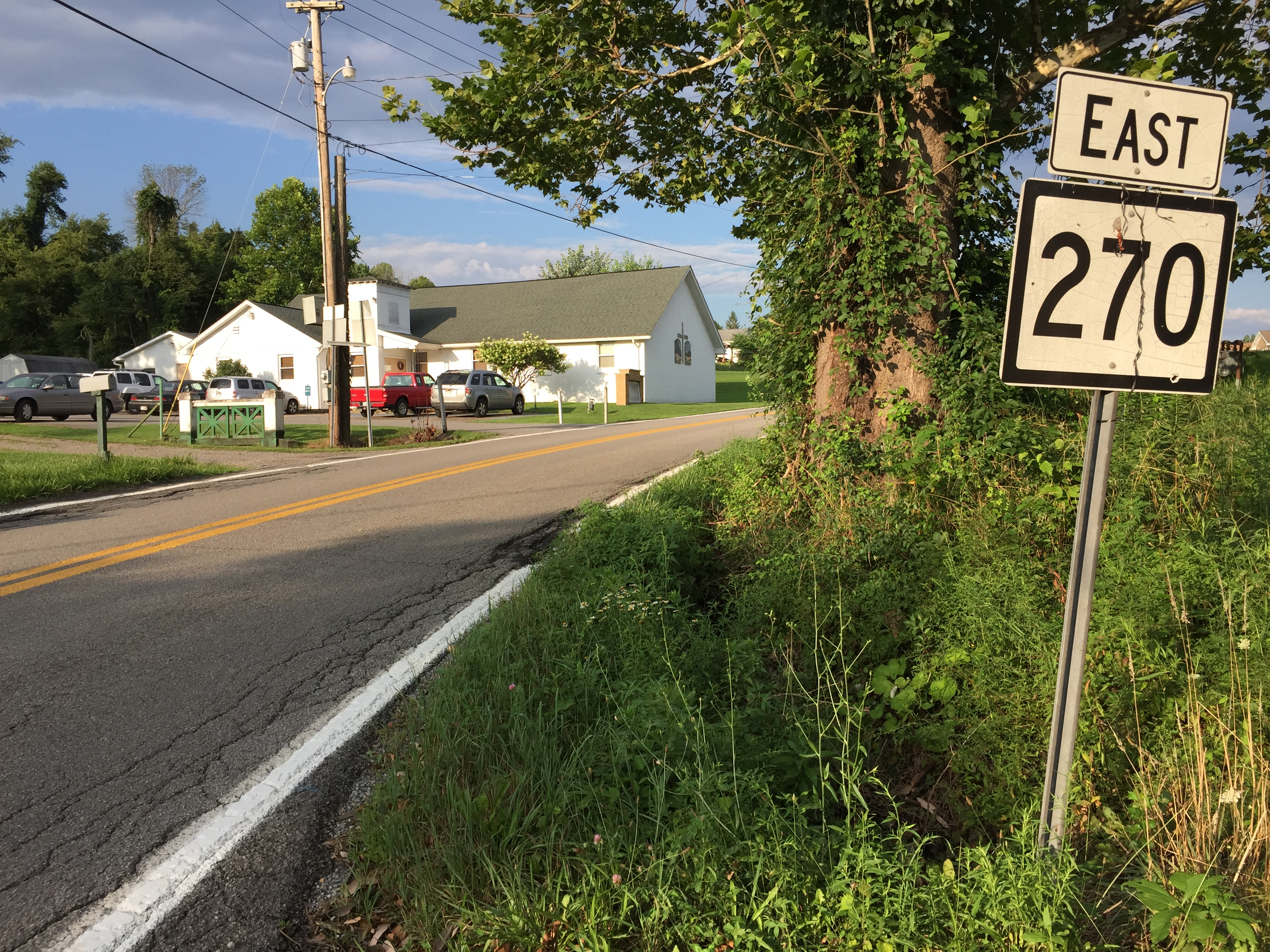 View east along West Virginia State Route 270 (Main Street) at U.S. Route 19 (Milford Street) in West Milford, Harrison County, West Virginia